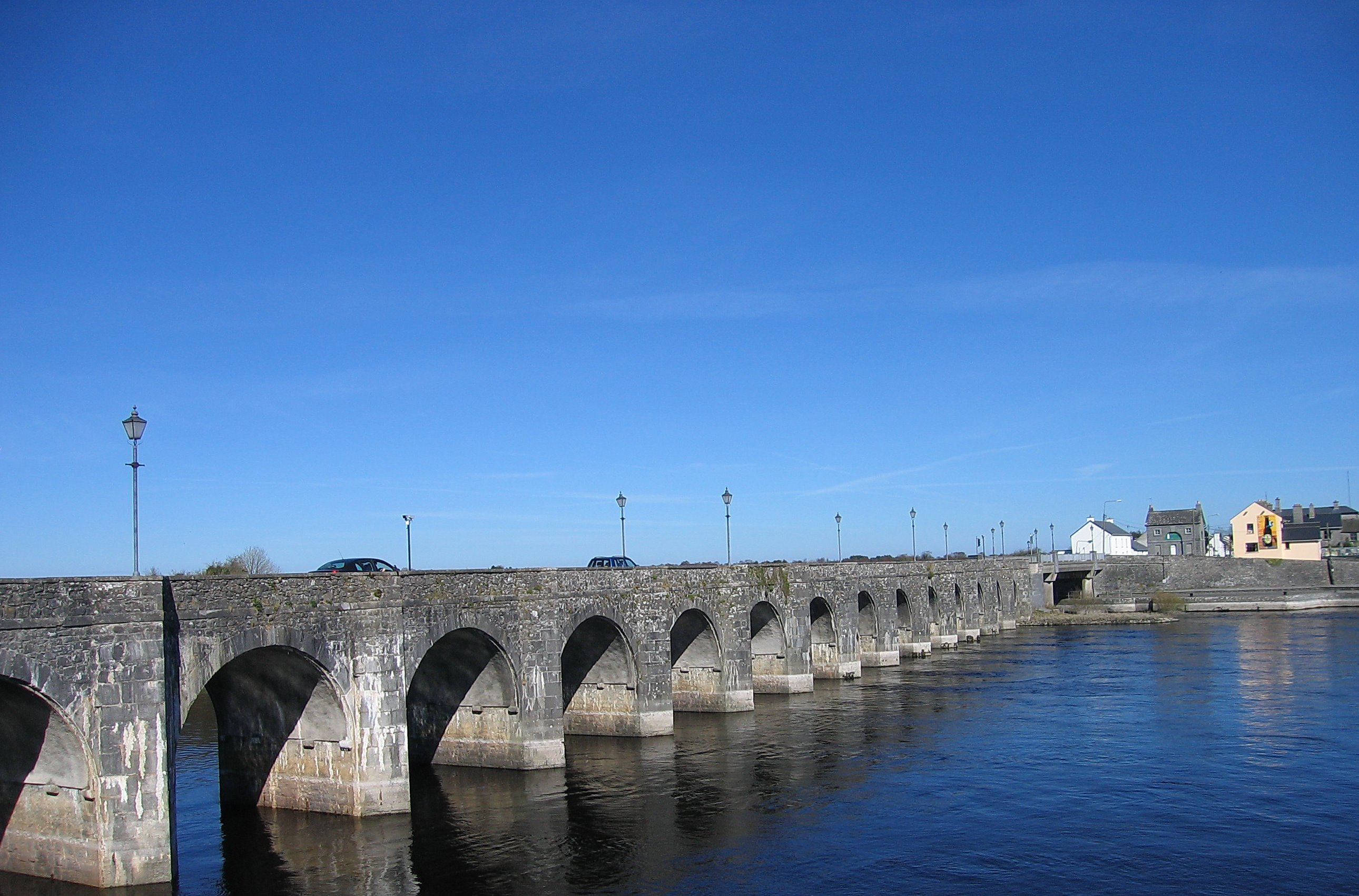 Bridge over the River Shannon at Shannonbridge, Ireland